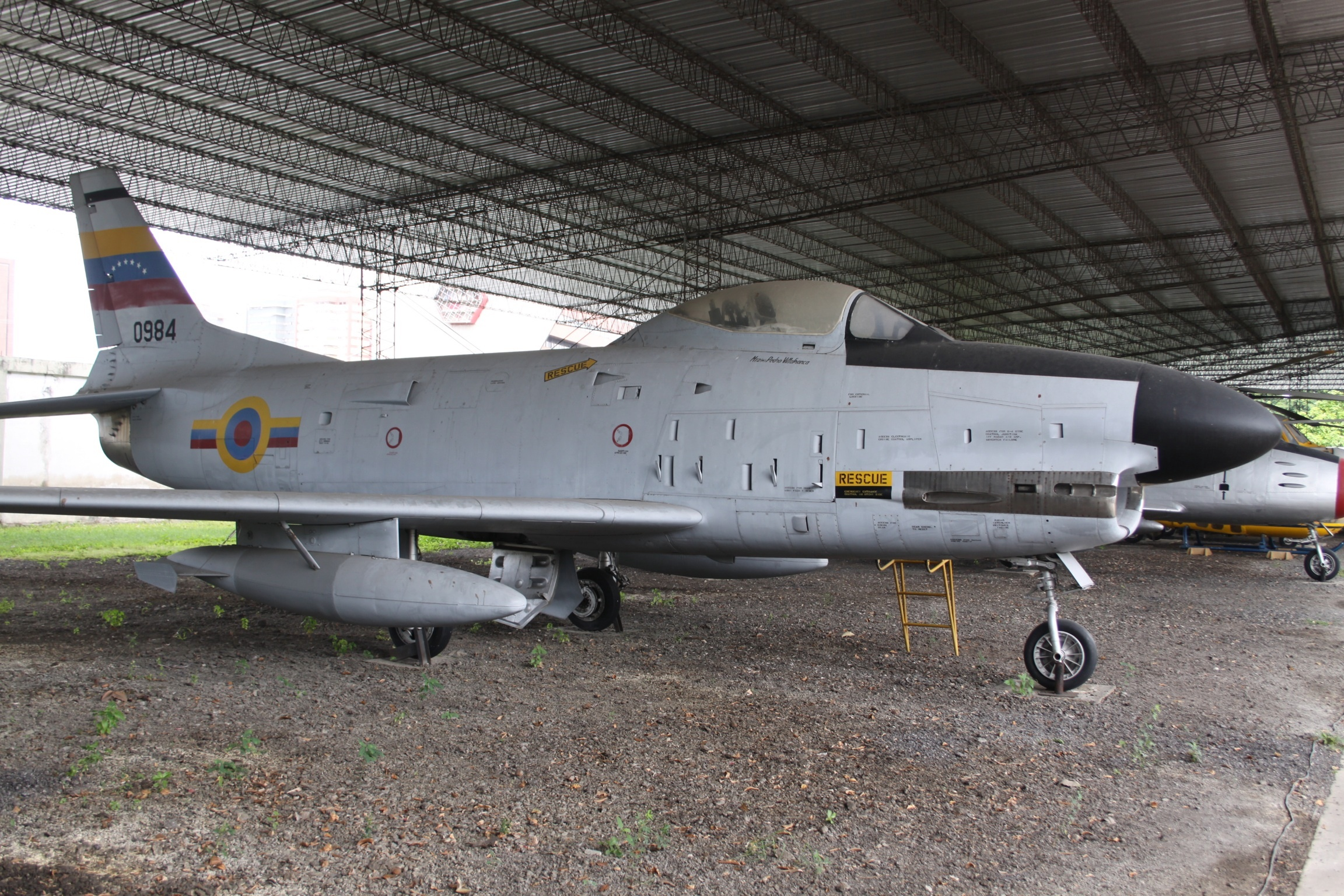 At Museo Aeronáutico de Maracay